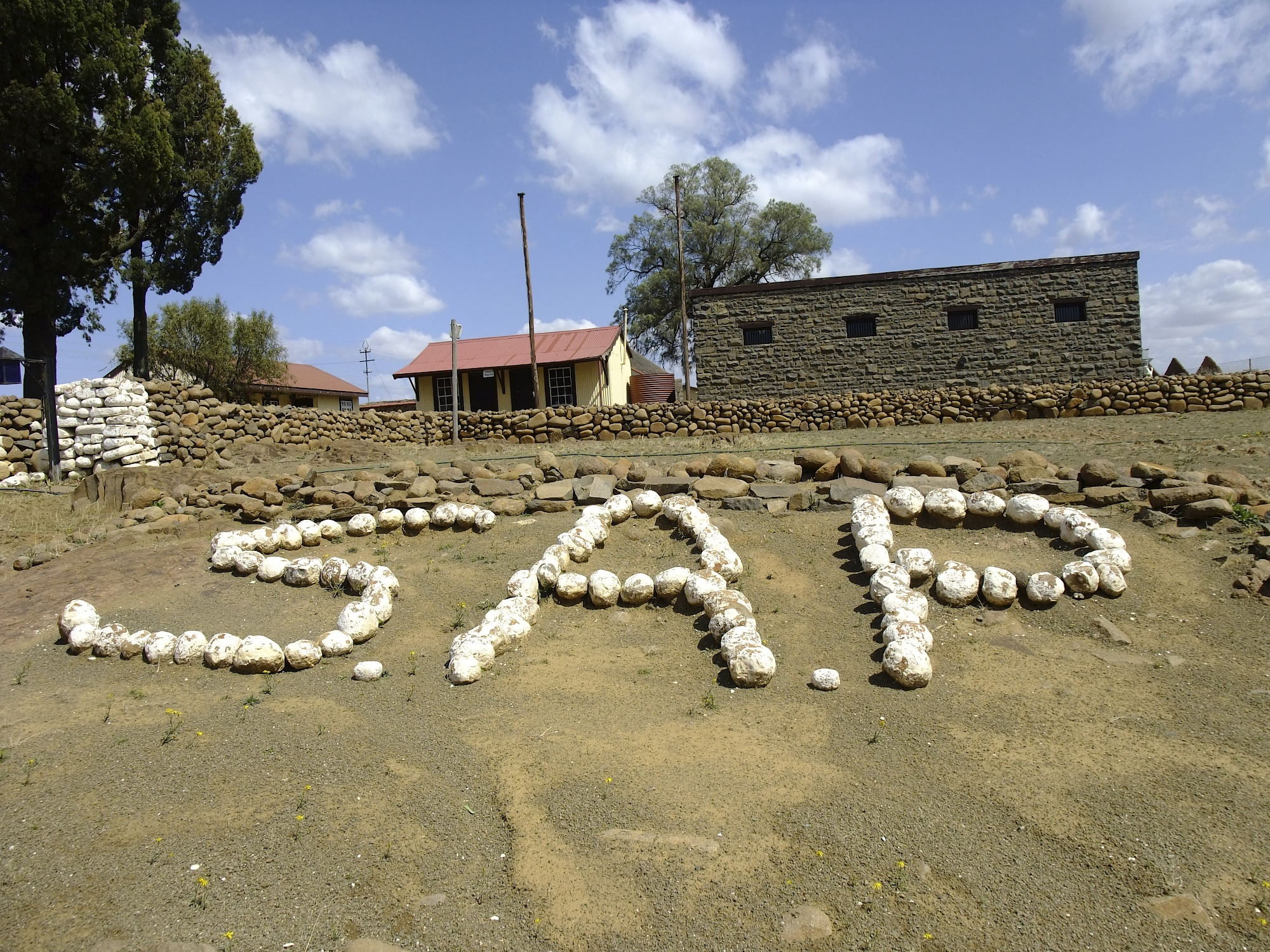 Police Ofﬁce Building: The building complex consists of a police station, prison, horse-stables, pound and rondavel etc. This media shows a South African Protected Site with SAHRA file reference 9/2/340/0005.